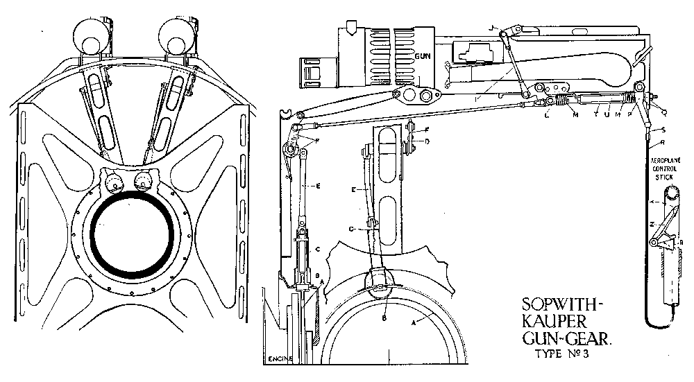 Diagram from maintenance manual for Sopwith-Kauper synchronisation gear (1917)